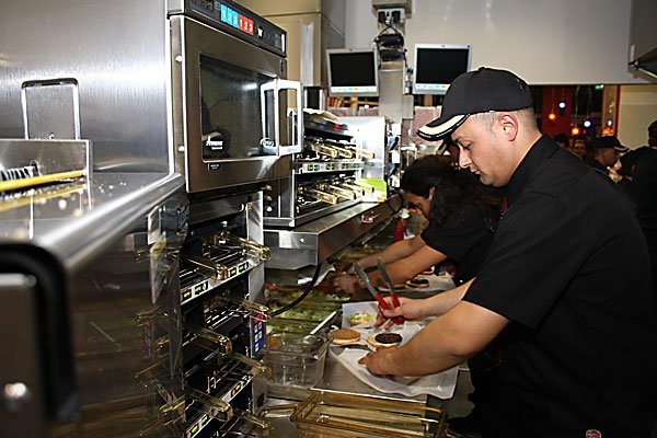 Burger King, Cosenza, Italy